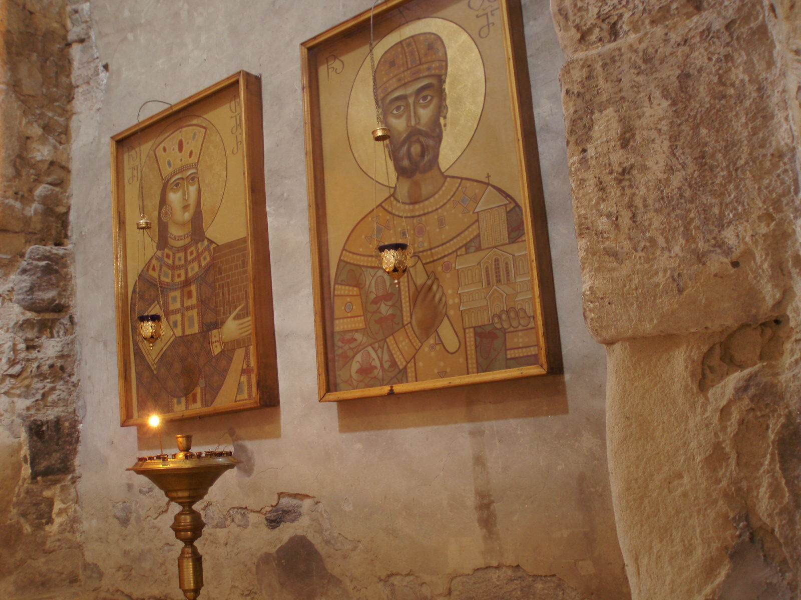 Queen Tamar King David II Aghmashenebeli in Sveti Cathedral Georgia